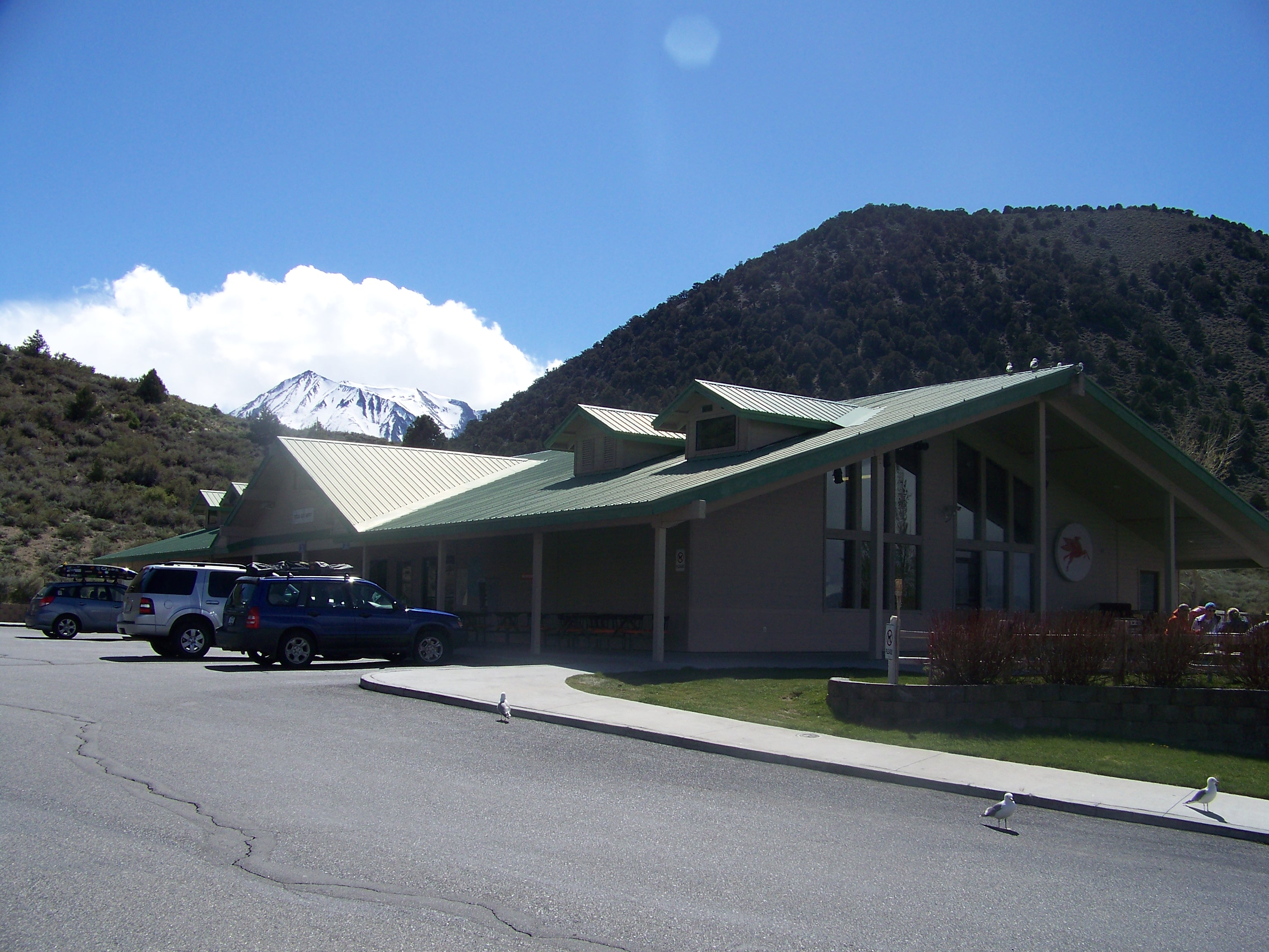 A photo of the exterior of the Whoa Nellie Deli in Lee Vining, CA. Mount Dana is in the background.